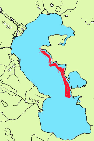 The range of Benthophilus kessleri